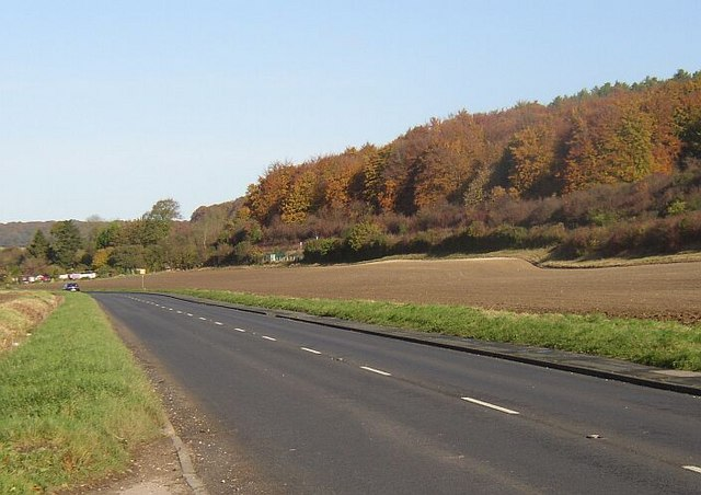 The open road between West Wycombe and Aylesbury The A4010 here (Bradenham Road) heads northwards towards the Chiltern Hills. Autumn time brings strong hues from the trees above the open farmland below (by the road). A great stretch of road, not too busy out of "rush hour" - although now sadly, no longer de-restricted.